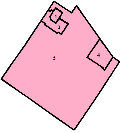 Map of Goulbourn, Ontario's ward map used in 1994 and 1997